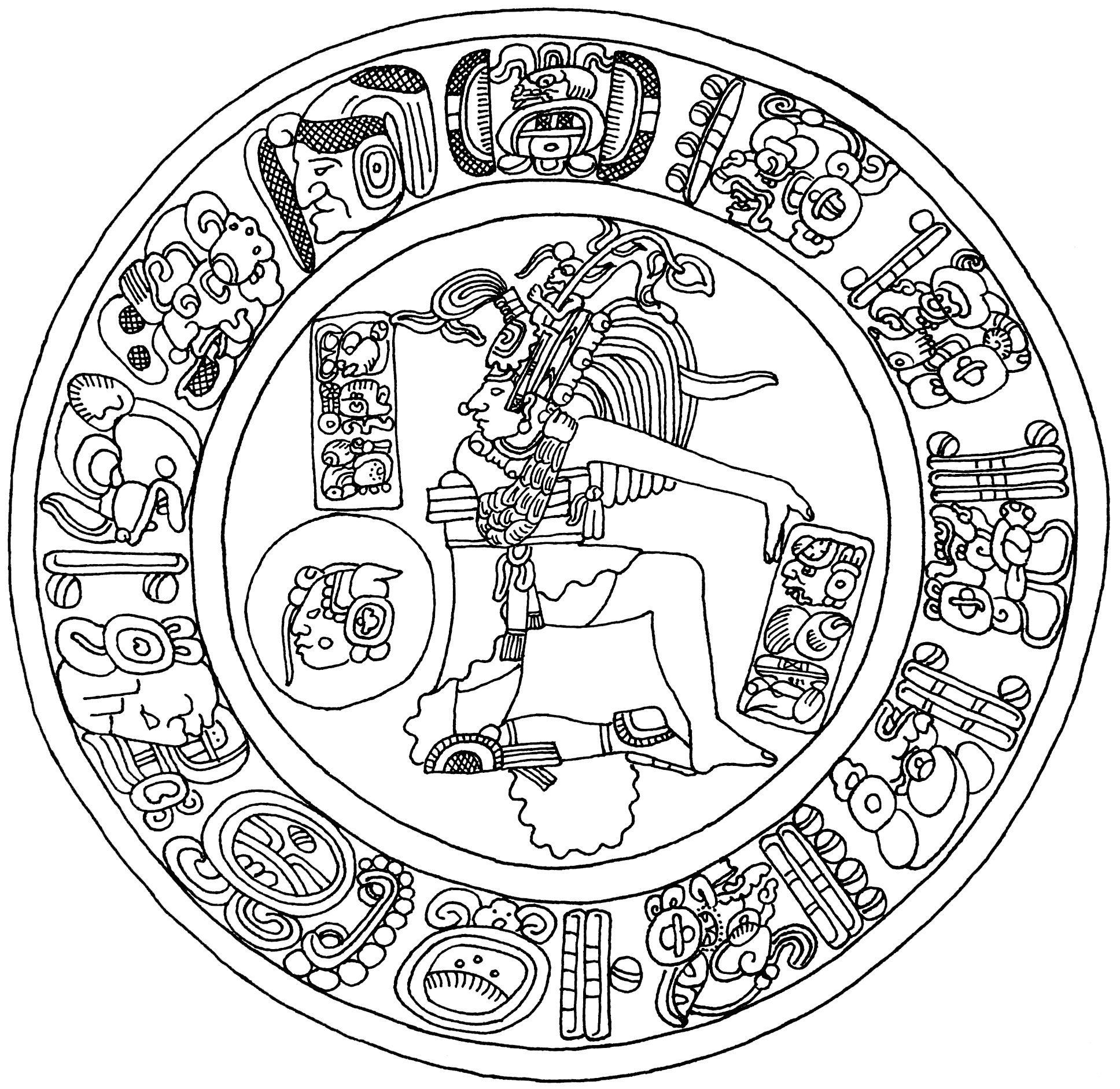 Ball court marker of Chinkultik, drawn by Lacambalam